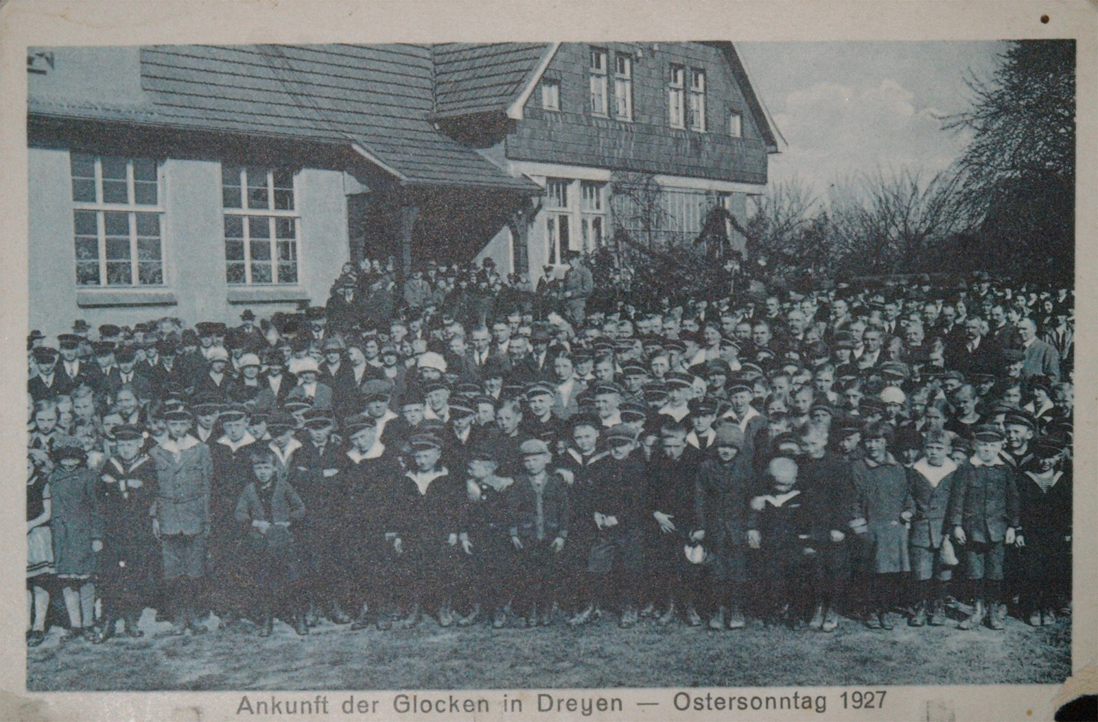 The picture shows the arrival of the belfry in Dreyen. You can also see the old school of Dreyen, now the playschool takes place in this house.